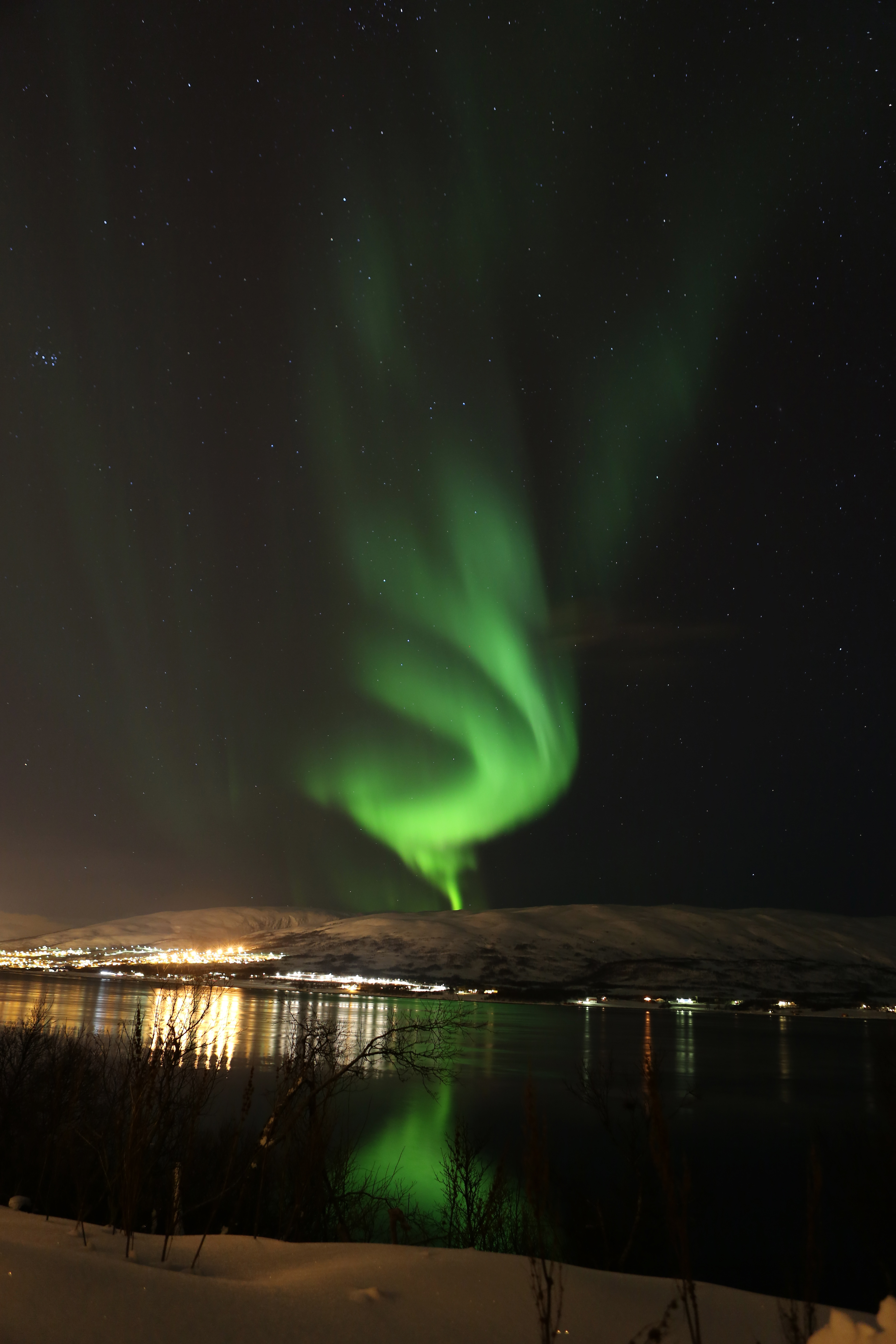 Aurora near Tromsø, Norway.